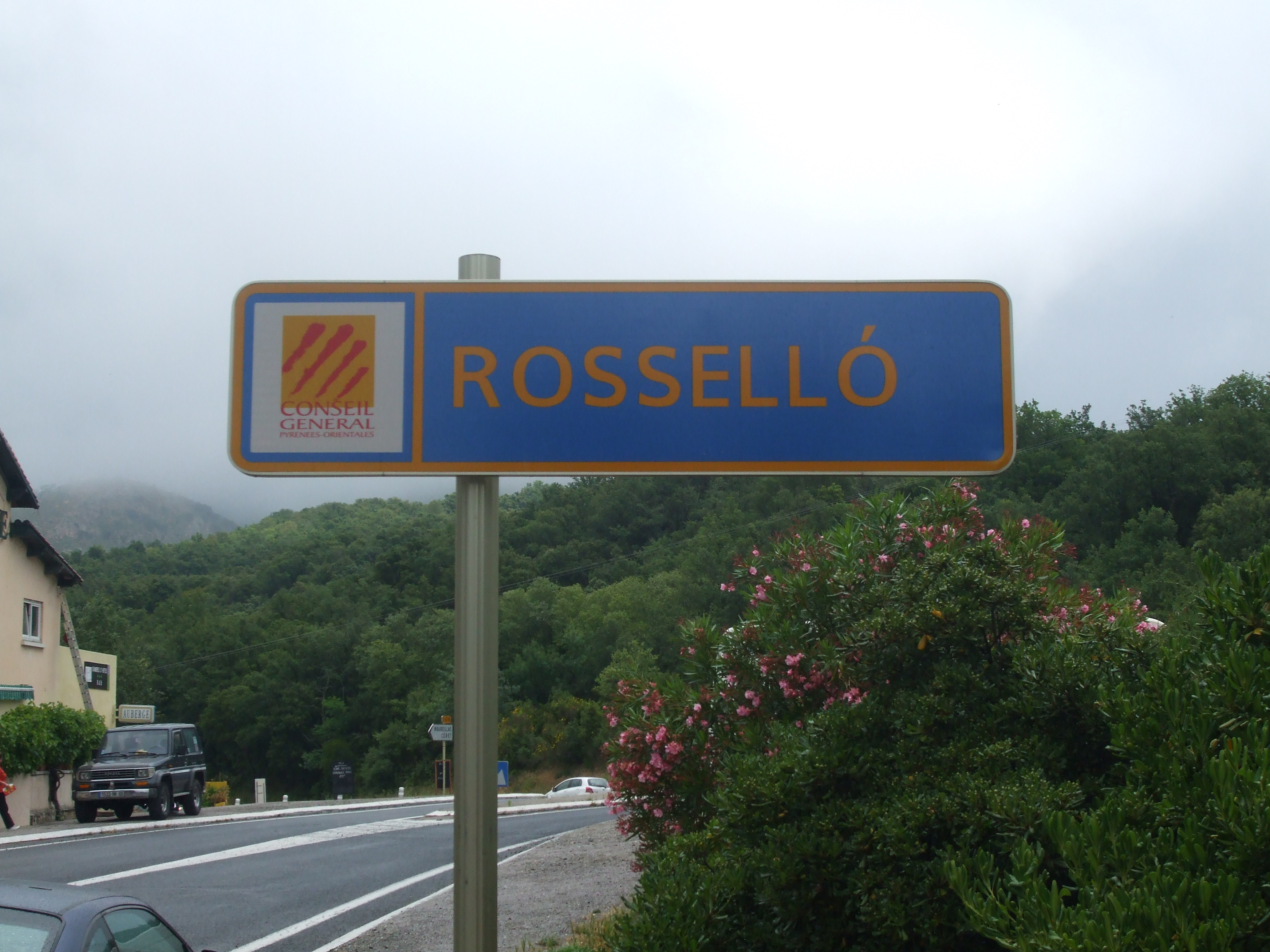 Road sign in Catalan on the D618 north-east of Morellàs i les Illes (French: Maureillas-las-Illas) in Northern Catalunya (French: Pyrénées-Orientales).